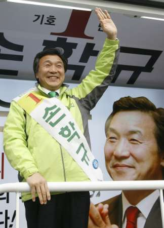 Son Hak-Gyu